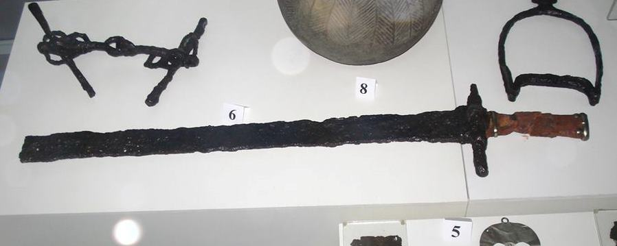 Snapshot of the original archaelogical finding as a museum artifact.